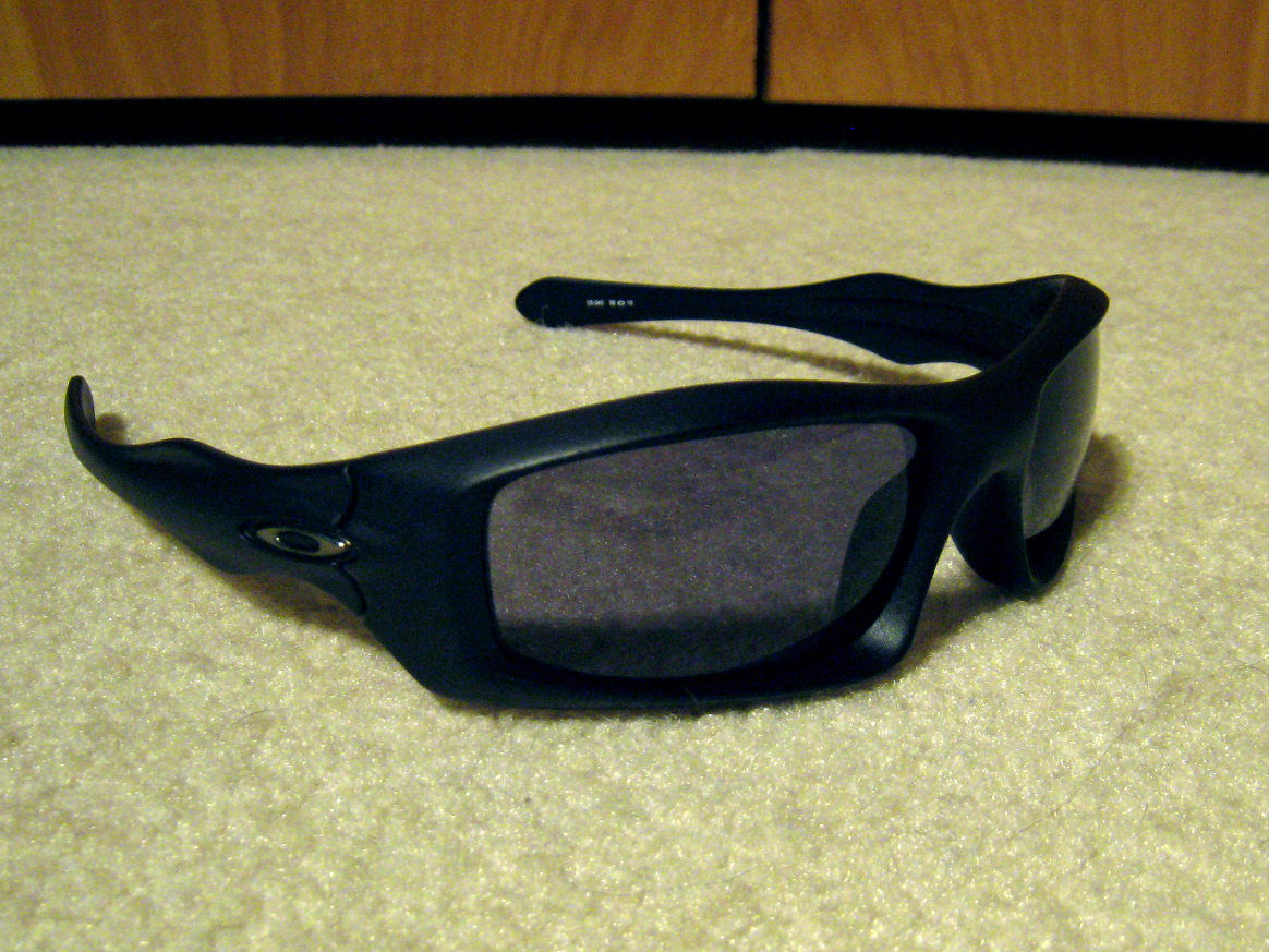 Oakley Monster Pup, Matte Black with Grey lenses